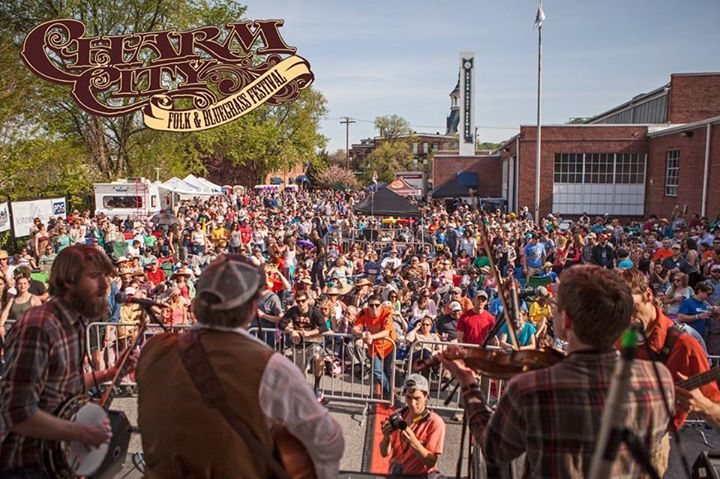 Crowd at the 2013 Charm City Folk and Bluegrass Festival